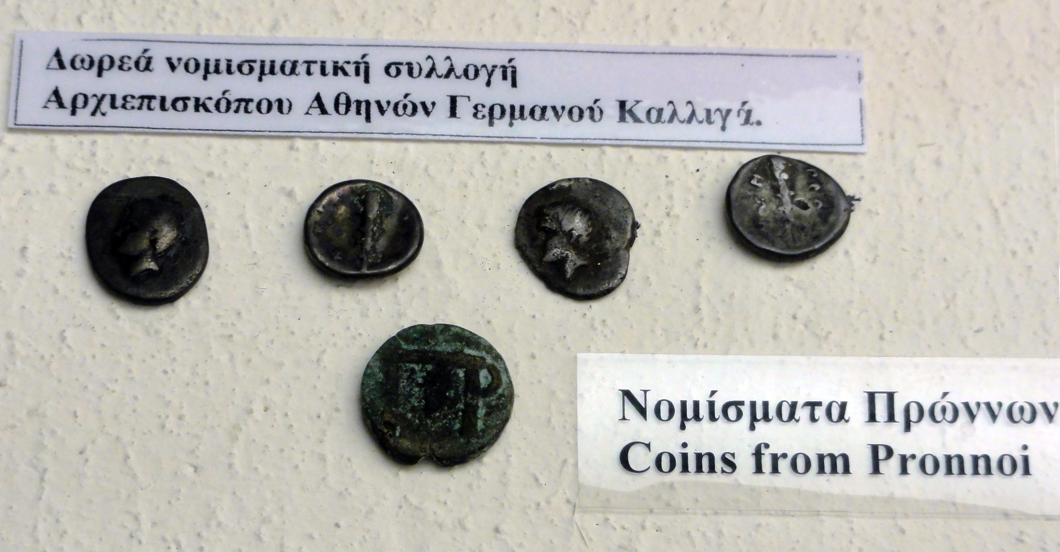 Photograph taken in the Archaeological Museum of Kefalonia (Argostoli). Coins from Pronnoi.